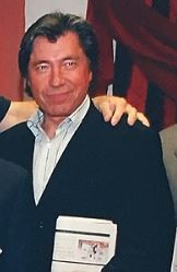 Ross shafter 2007